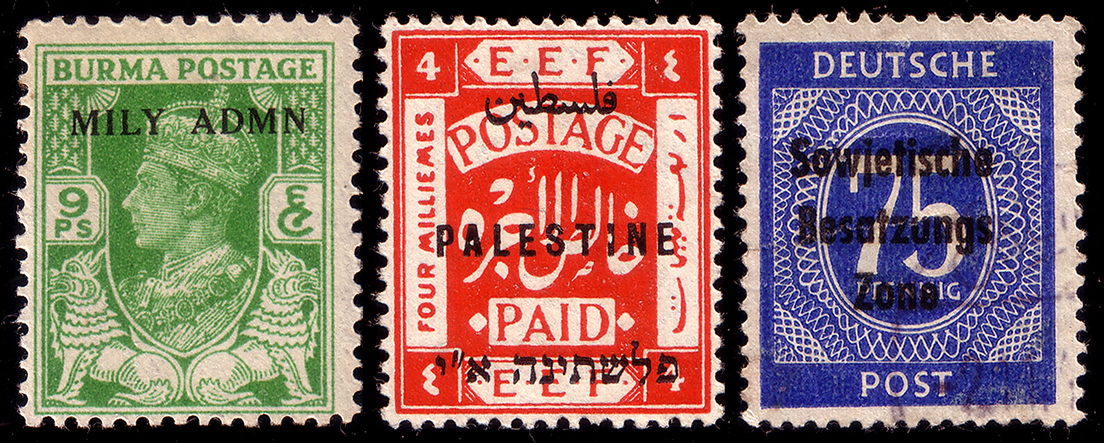 Military administrations postage stamps of Burma (UK), Palestine (Egyptian Expeditionary Force, a.k.a. EEF) and Germany (USSR), 1940s